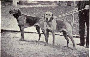 Finnish Hound from 1915